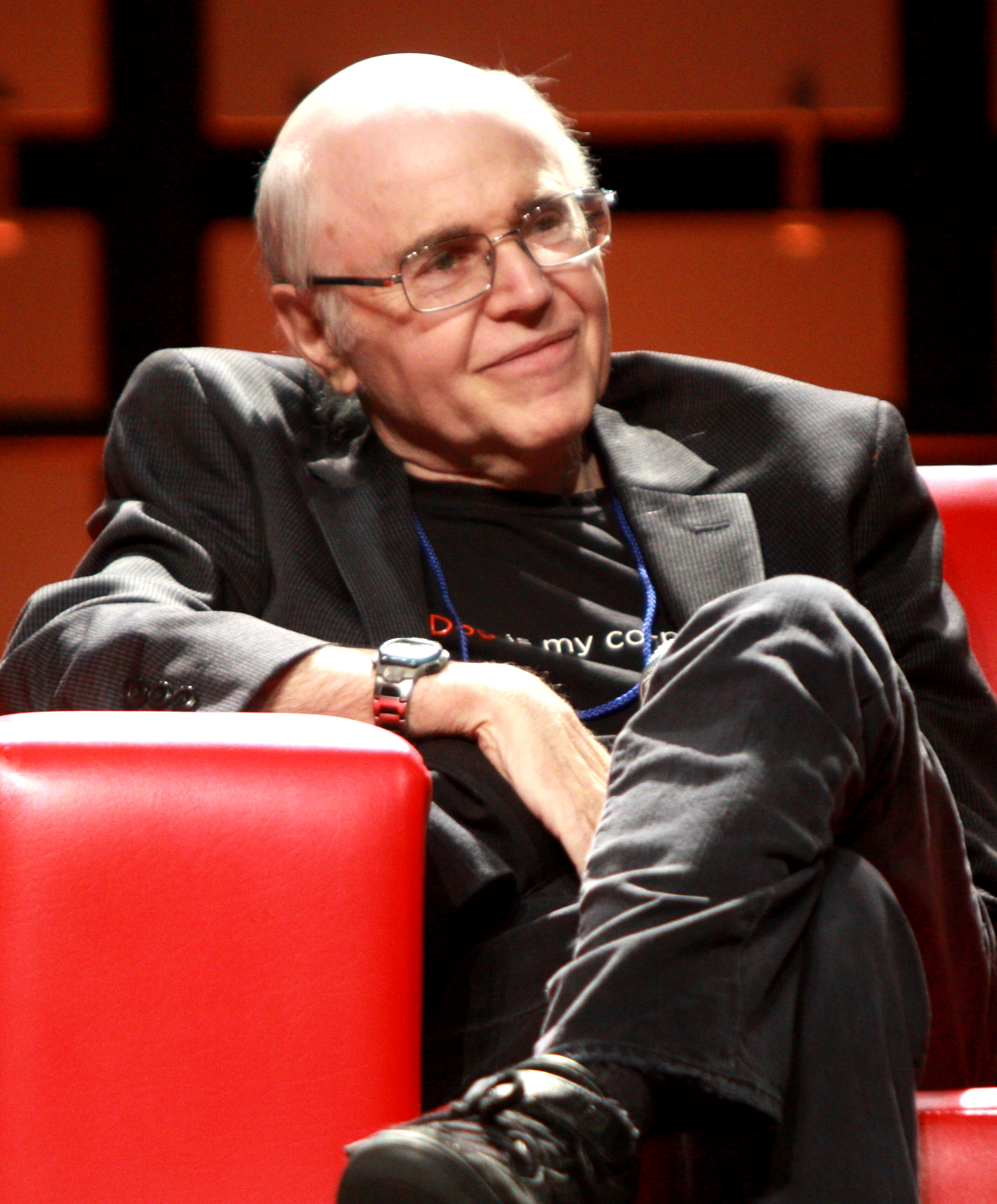 Walter Koenig at the 2013 Phoenix Comicon in Phoenix, Arizona.